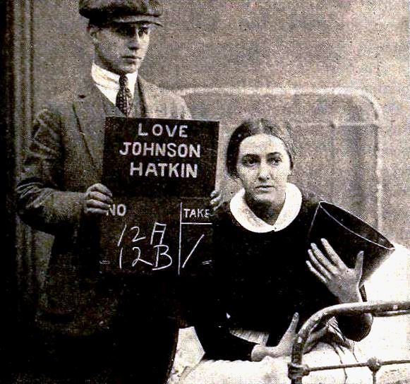 Still from the production of the American film Love and the Woman (1919) with director Tefft Johnson and June Elvidge, on page 35 of the September 1919 Film Fun. The caption indicates that Elvidge is holding a megaphone here instead of a baby so that the director can best determine how the scene will photograph best, and then the baby is handed to the actress. The slate board or clapperboard list with Love Johnson Hatkin lists the name of the film, director, and cinematographer (Philip Hatkin).